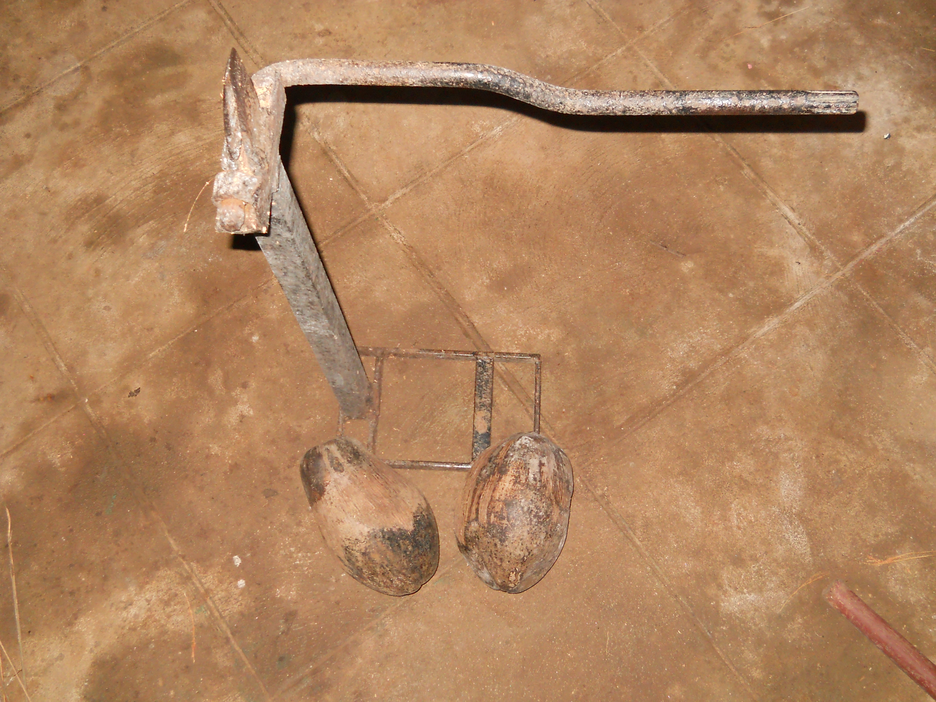 തേങ്ങാപ്പൊളിയന്ത്രം This media file is uploaded with Malayalam loves Wikimedia event - 2.